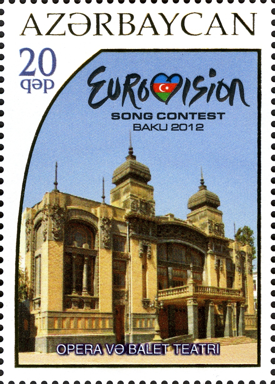 "Eurovision - 2012" song contest